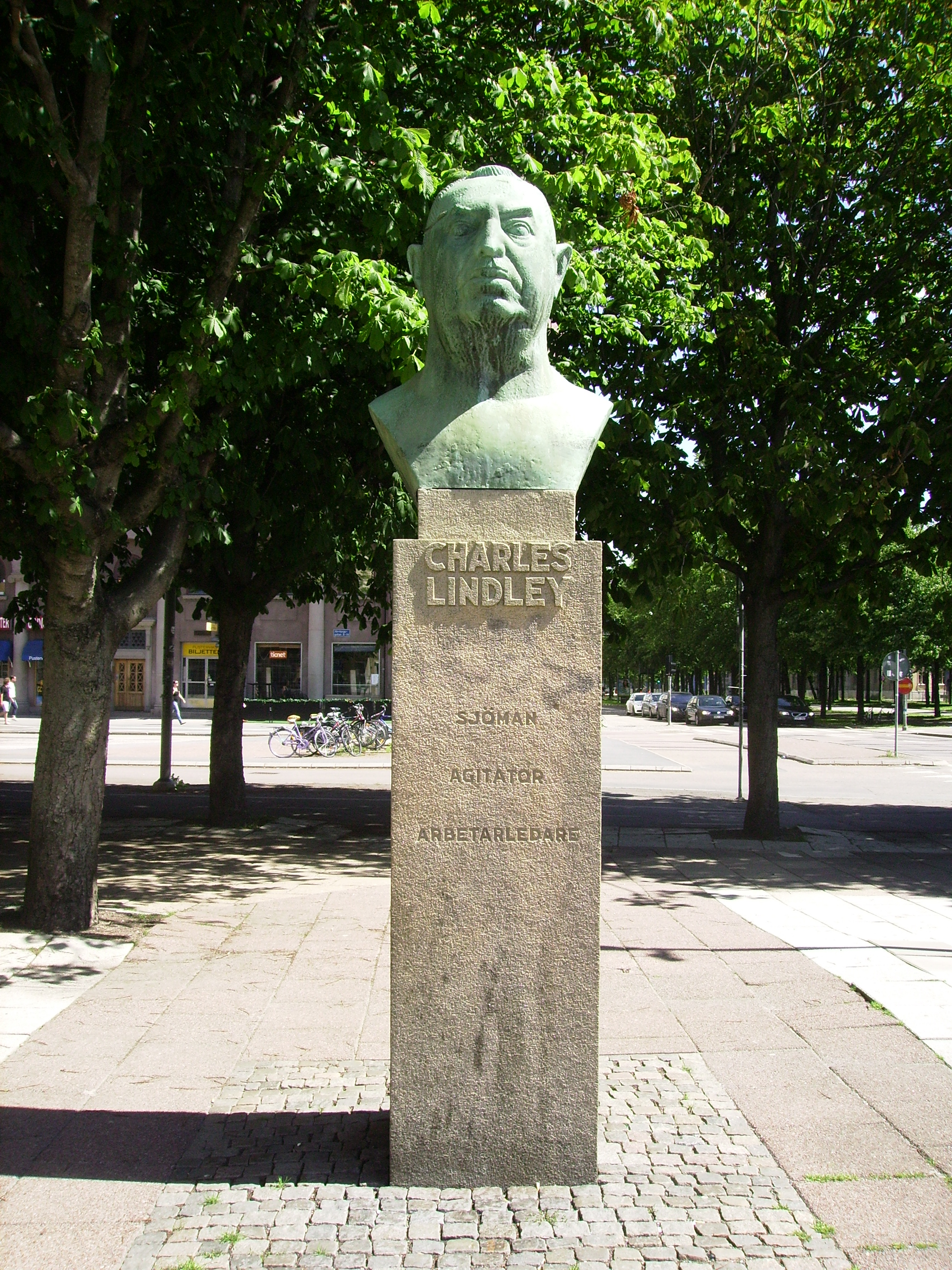 Picture of sculpture in Gothenburg, Charles Lindley